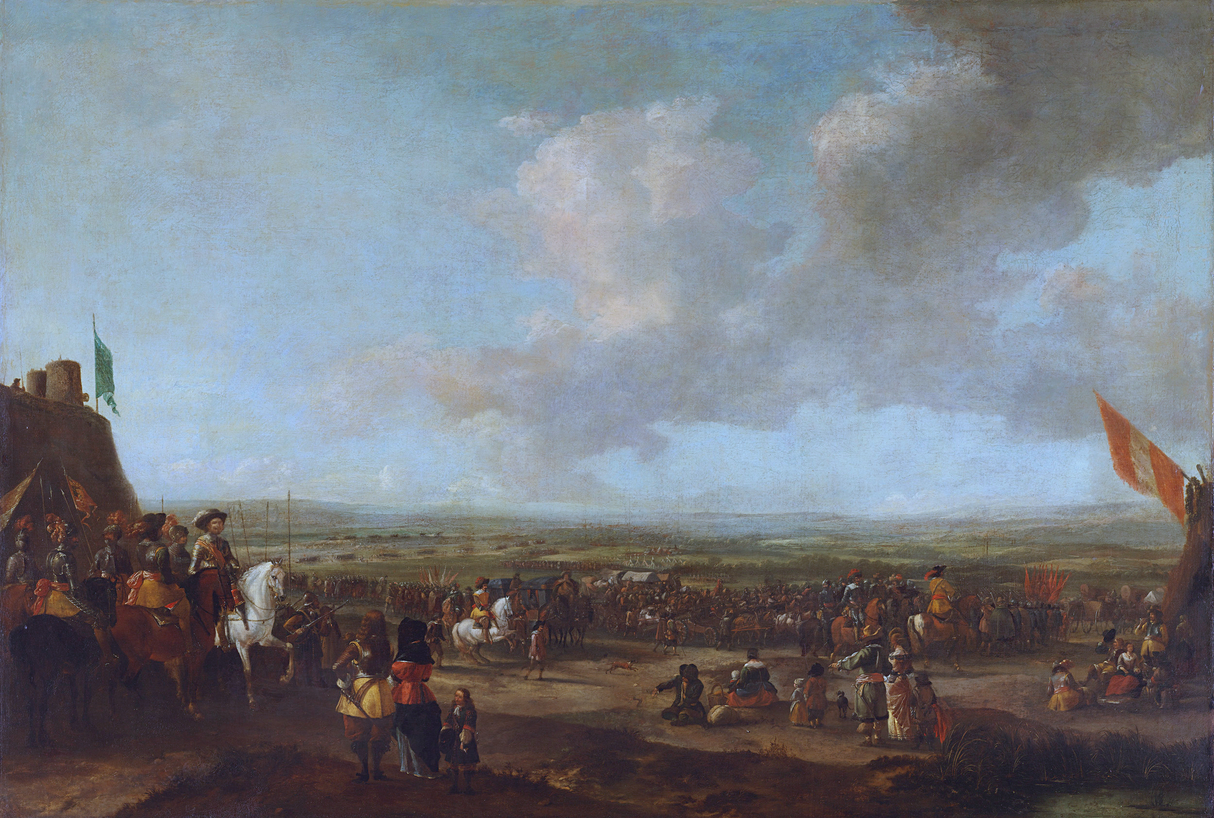 Frederik Hendrik at the surrender of Maastricht, 22 August 1632 oil on canvas 138 x 201 cm 1633 - 1680